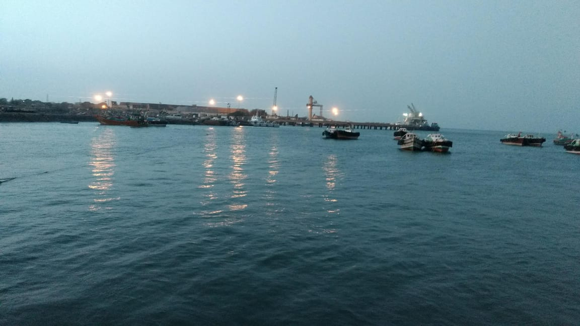 Okha sea view